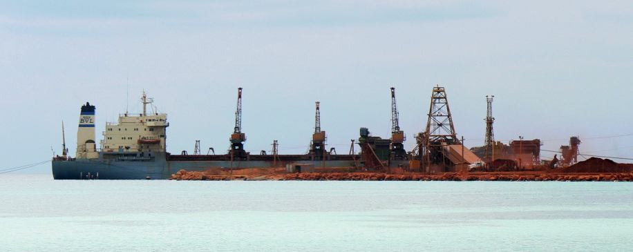 Bauxite being loaded onto a freighter at Cabo Rojo, Dominican Republic